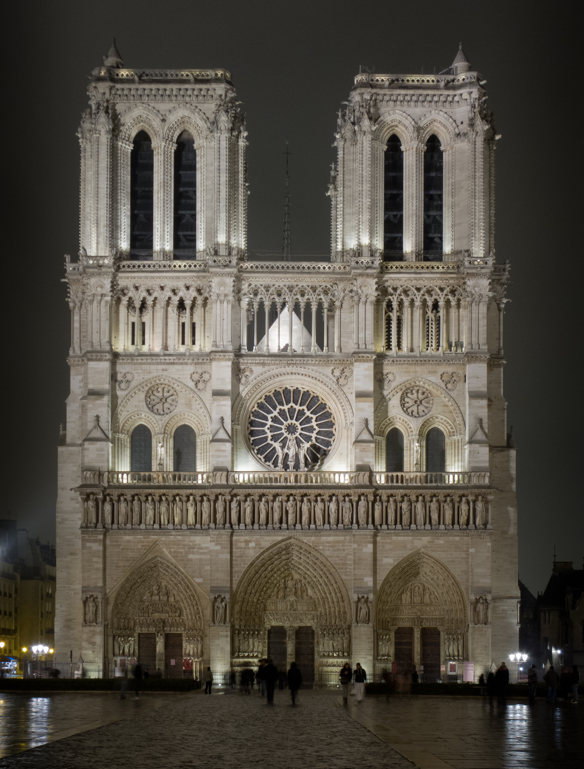 Night view of the west facade of the Cathedral of Notre-Dame of Paris, France.